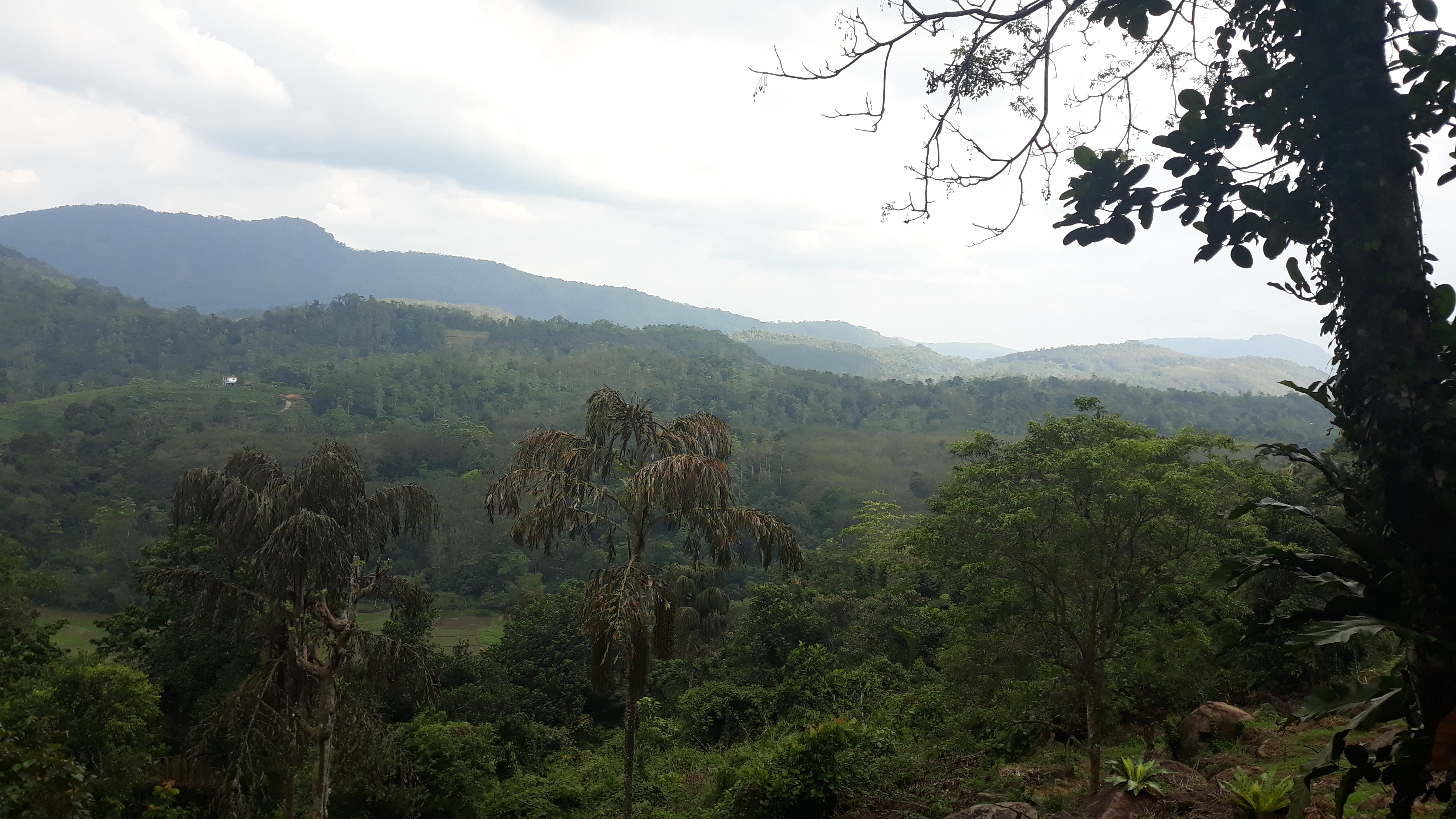 Labugama is a village in Sri Lanka.(Avissawella) It is located within Western Province.